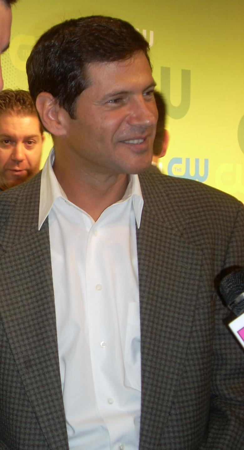 Thomas Calabro – CW Upfront Presentation: Green Carpet Arrivals, Madison Square Garden, New York City.